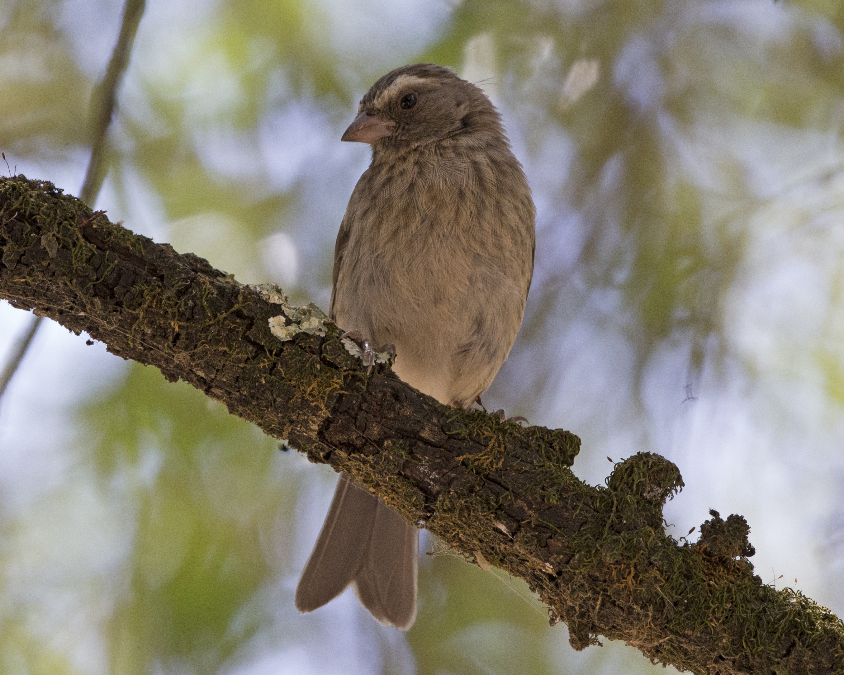 Reichard's Seedeater Serinus reichardi Serinus reichardi striatipectus Debre Libanos, Ethiopia 16th. January 2015 CF2P9777